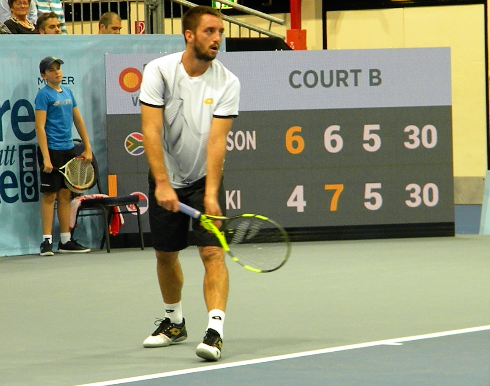 10/25/2016; Viktor Troicki (Serbia) - Kevin Anderson (South Africa) 2-1; First Round